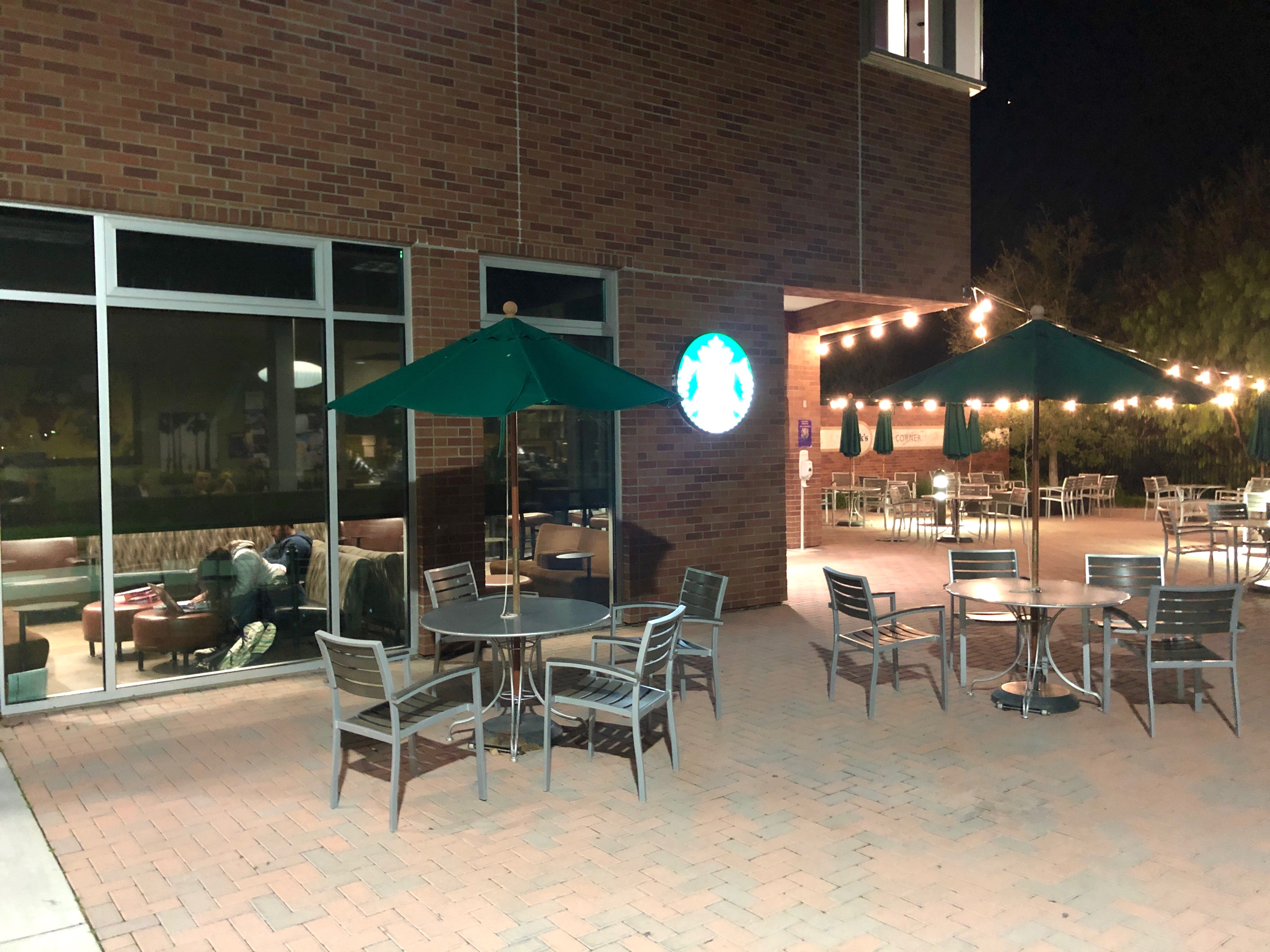 Starbucks at California Lutheran University